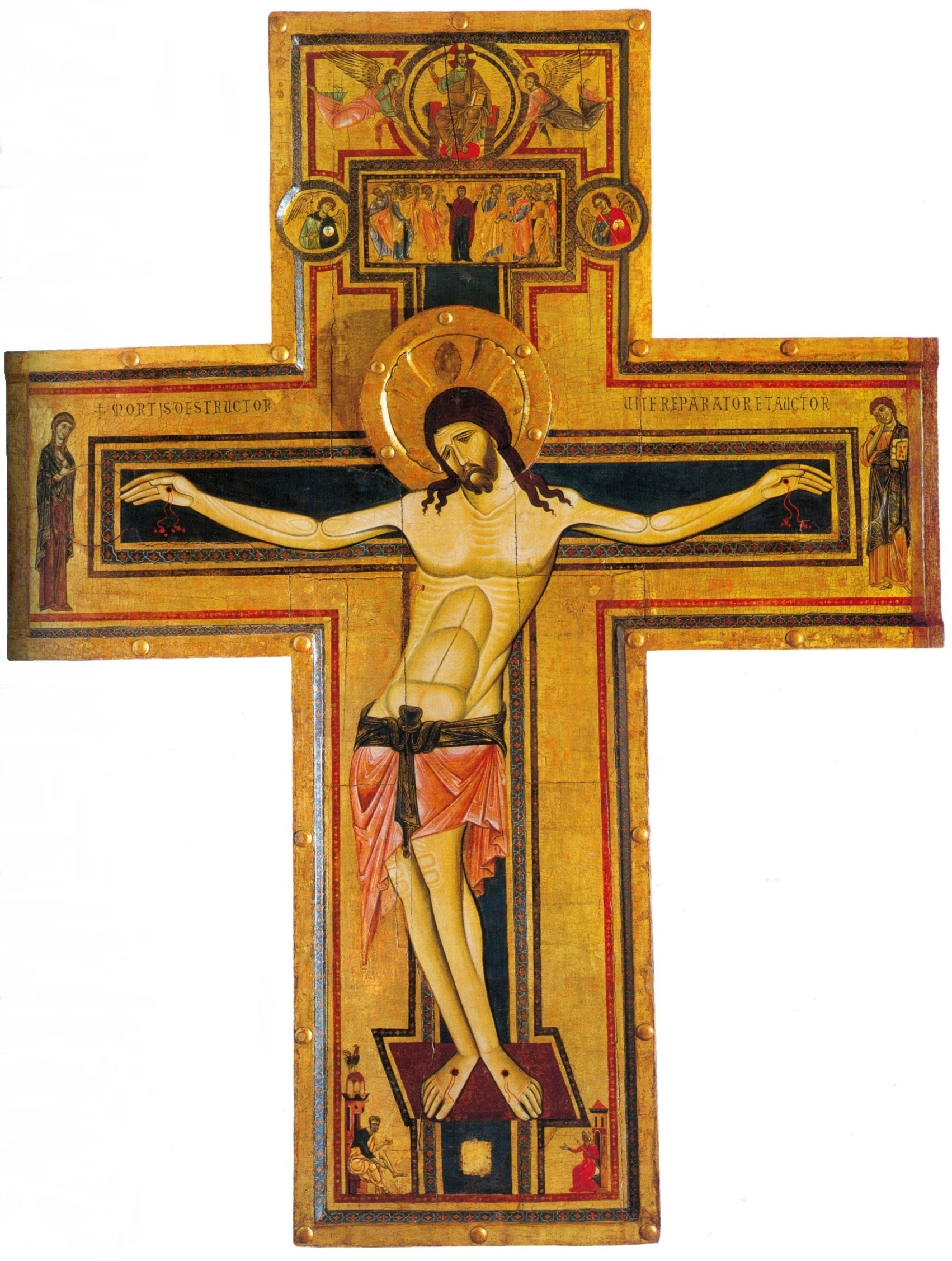 Michele di Baldovino, Croce dipinta, Pisa, chiesa di San Pietro in Vinculis